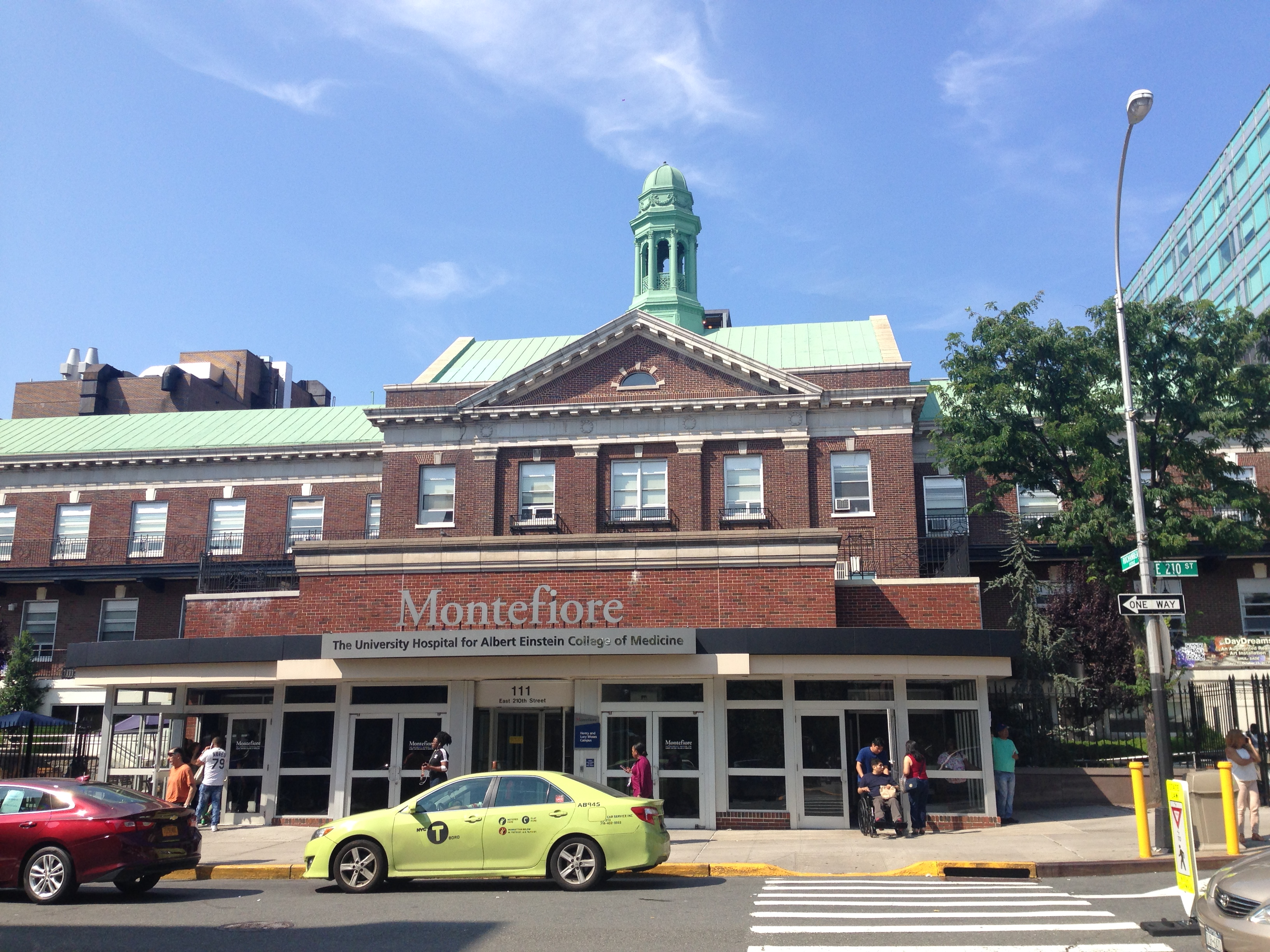 Main entrance to Montefiore Medical Center in Norwood, Bronx, NY